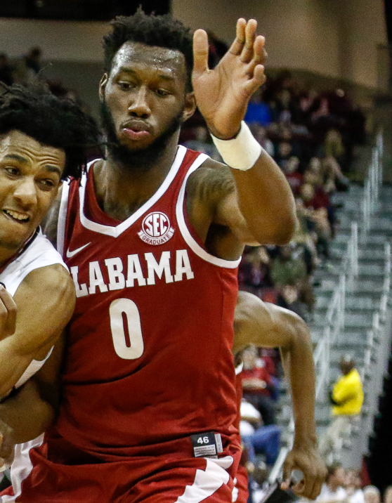 Photo by Chris Gillespie